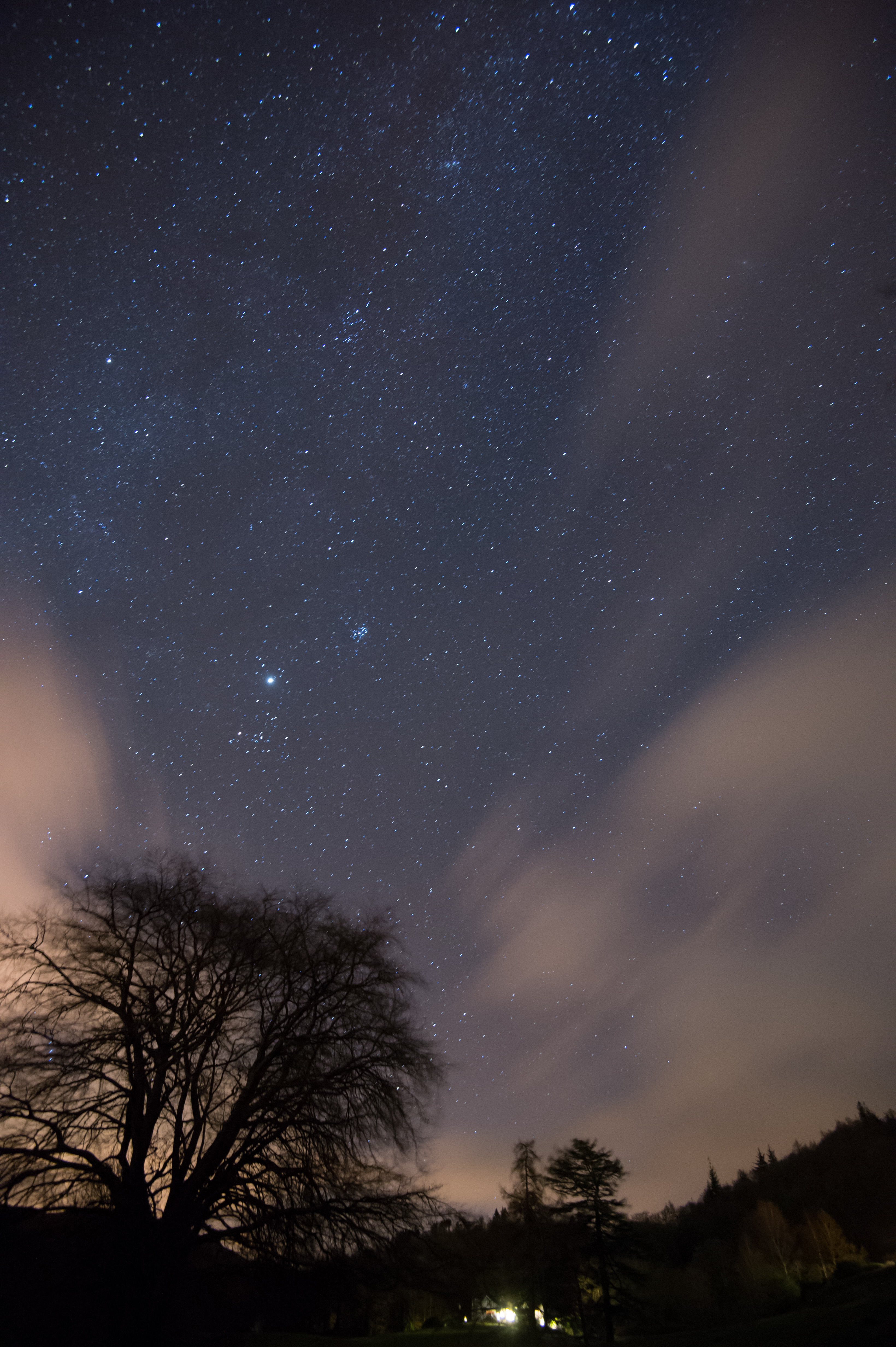 The stars were so beautiful and stunning. It takes my breath away and I couldn't do anything but standing right there to view this amazing scene for a while. 夜空がとてつもなくきれいで衝撃を受けました。息をのむ美しさとはこういう光景をいうのでしょう。あまりにもきれいだったのでその場にしばらく立ち尽くしました。 [ Nikon D4, Nikon AF-S NIKKOR 16-35mm f/4G ED VR, 16mm, f/4.0, 30sec, ISO6400, Tripod, Lightroom 4.3 ]